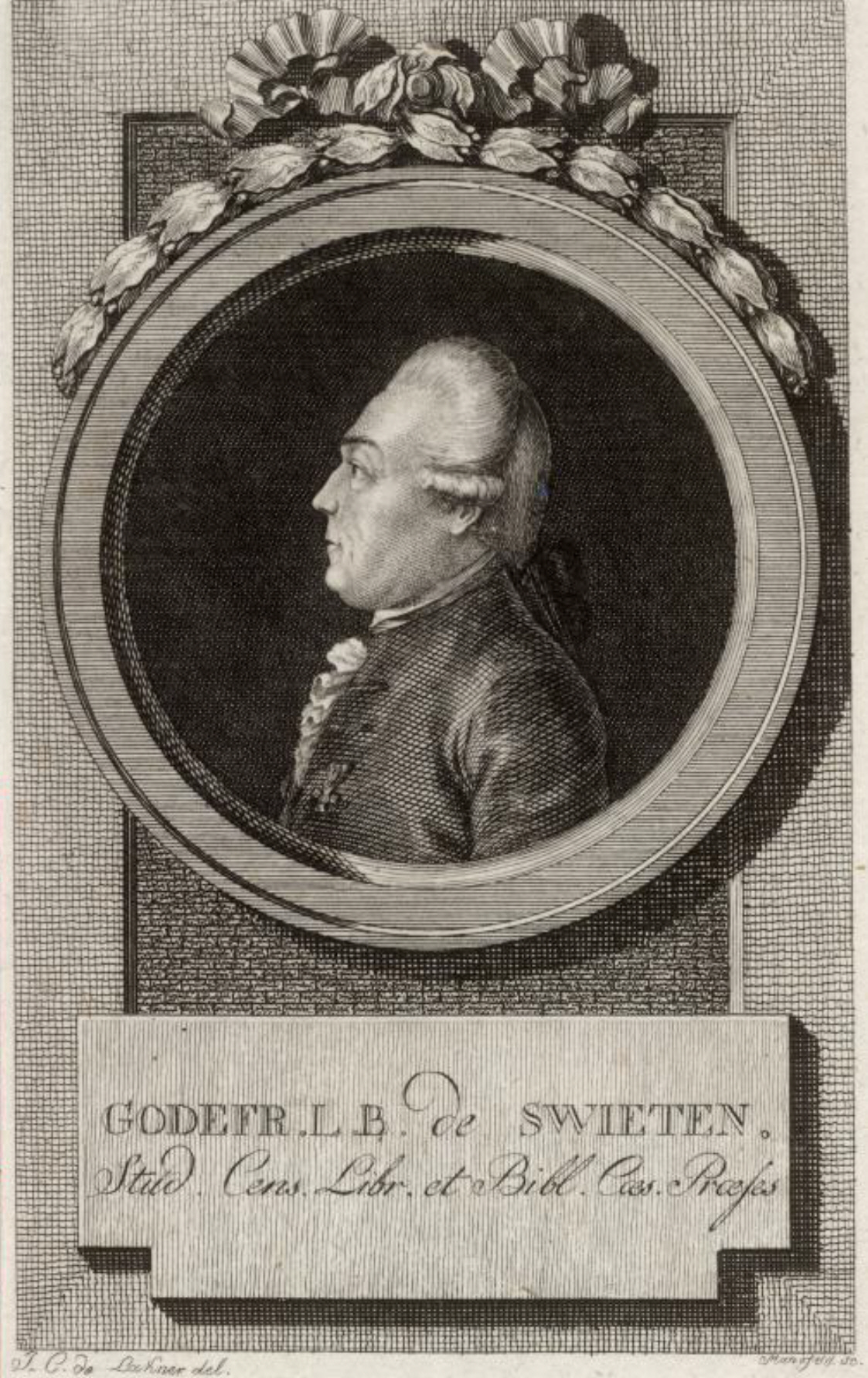 "Gottfried Bernhard Baron van Swieten (1733-1803) - Photograph of an engraving thought to be by Johann Georg Mansfeld, based on a drawing by Lakner."